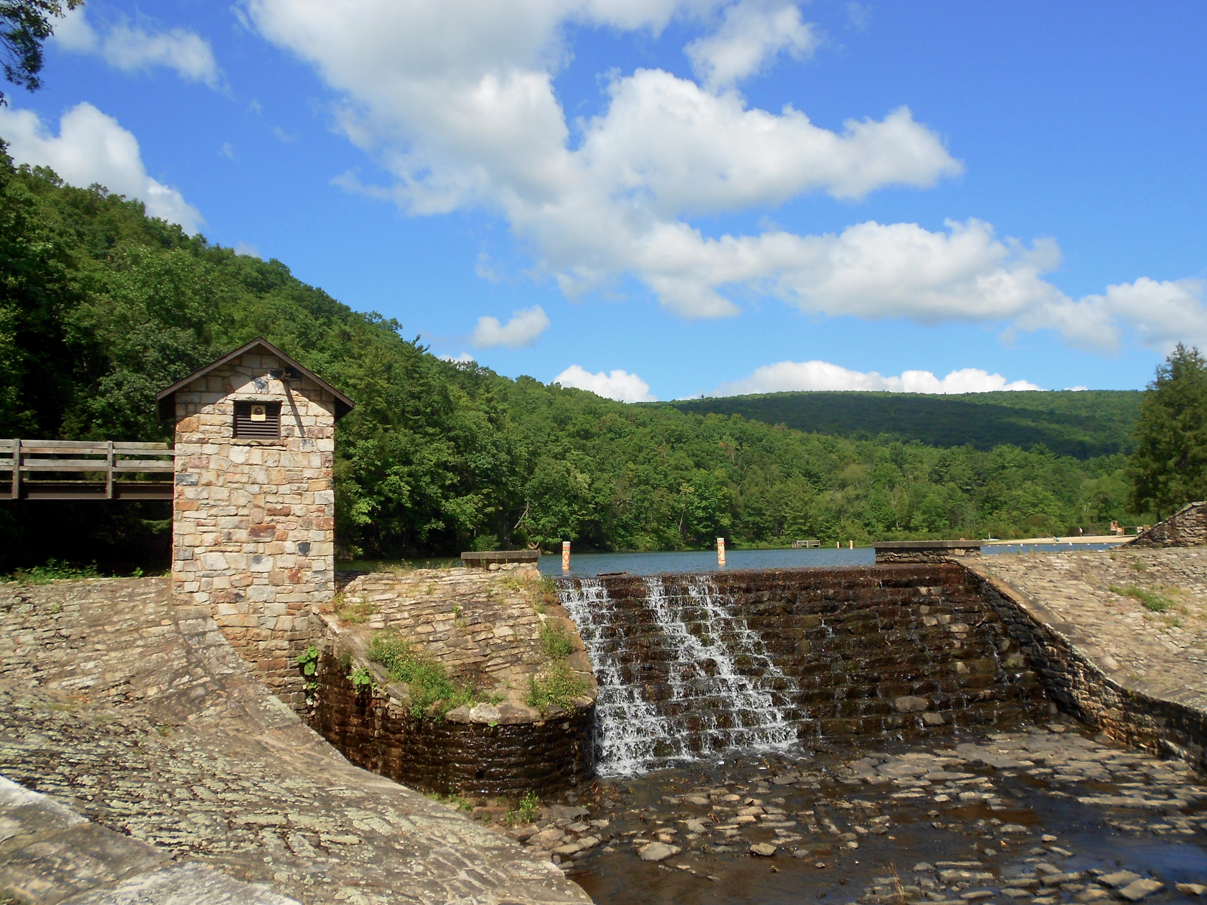 Greenwood Lake Dam in Huntingdon County, Pennsylvania. Listed on the National Register of Historic Places